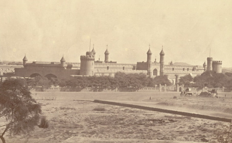 This is a low-resolution and cropped (down to 40% of original size) version of Photograph of the Railway Station at Lahore, British India—present day Pakistan, taken by George Craddock in the 1880s, part of the Bellew Collection of Architectural Views. Oriental and India Office Collection. British Library. Sanjay Tiwari 19:07, 29 September 2006 (UTC)